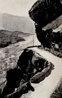 Section of the road in Darial Pass